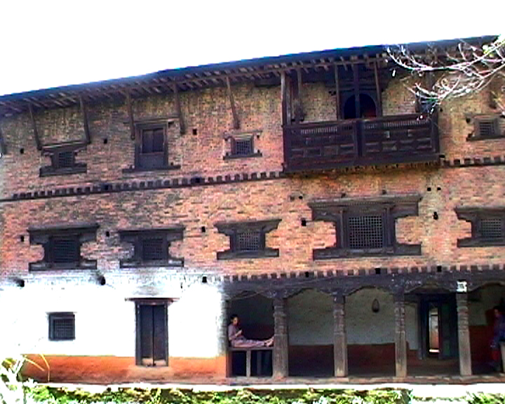 An ancient palace situated in Dolakha District of Nepal.